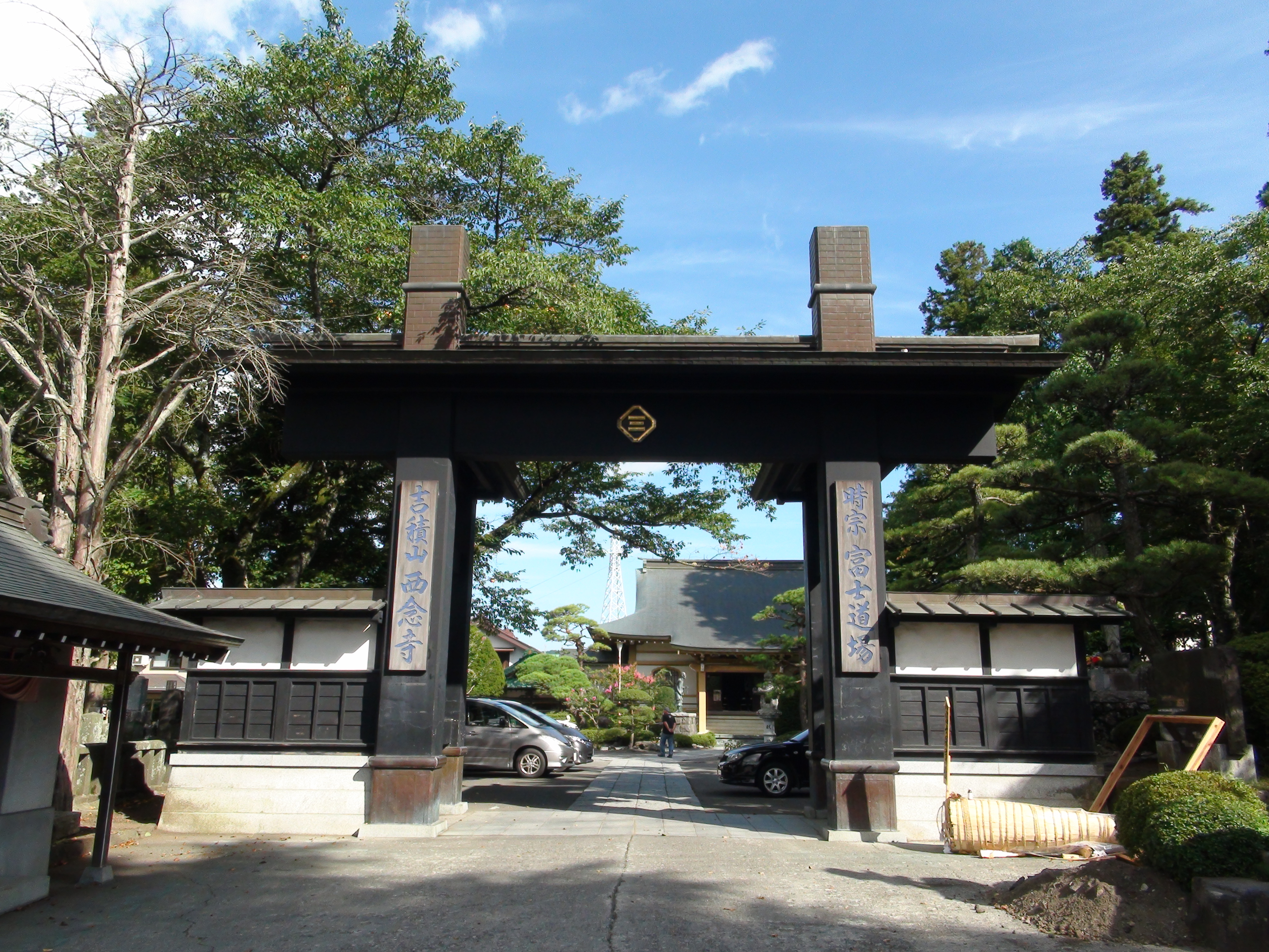 Sainenji Temple Fujiyoshida City